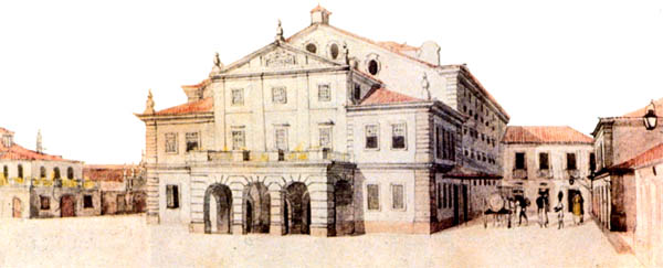 Facade of Sao Joao Theatre in Rio de Janeiro, Brazil